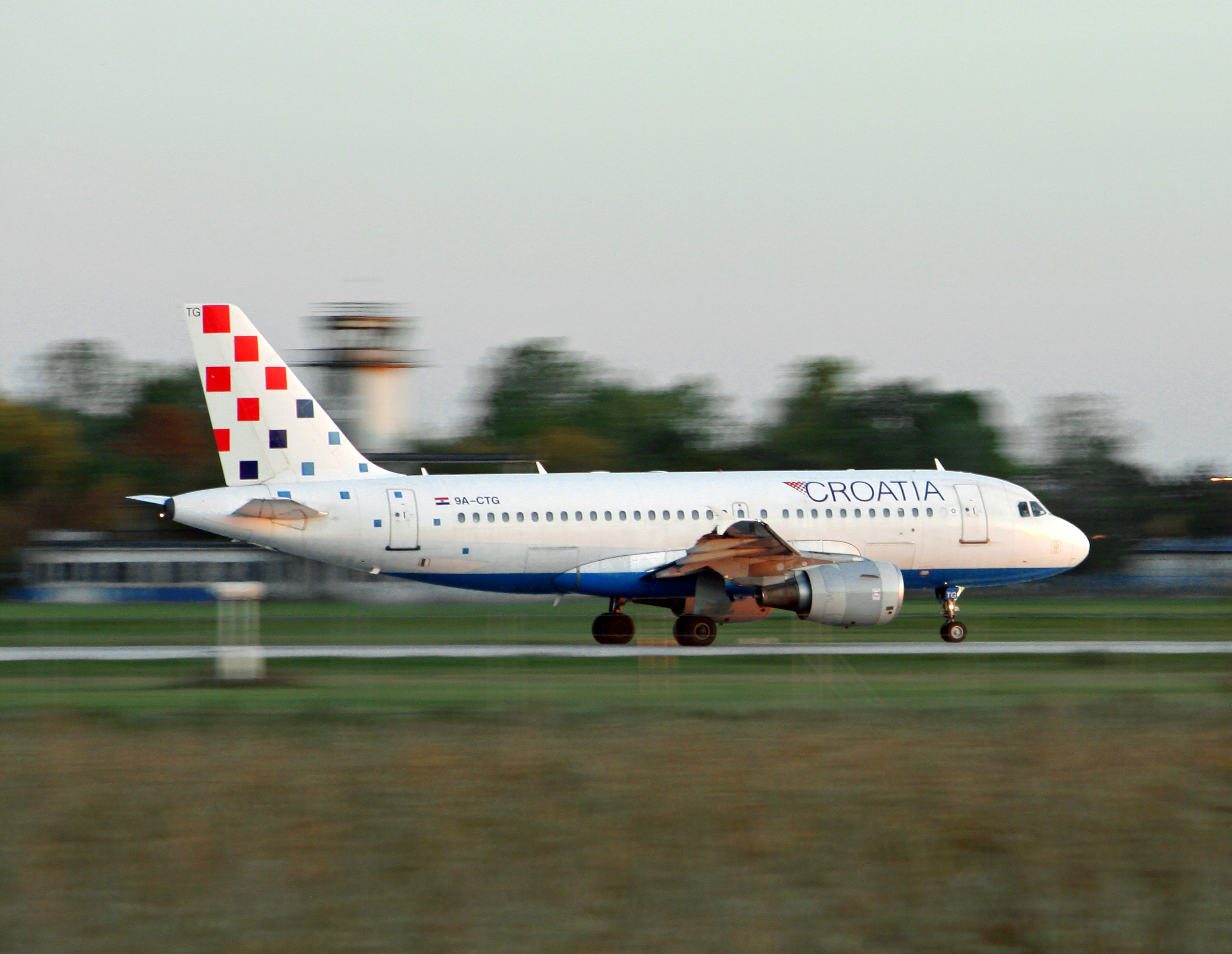 Croatia Airlines plane on take-off run at Pleso Zagreb